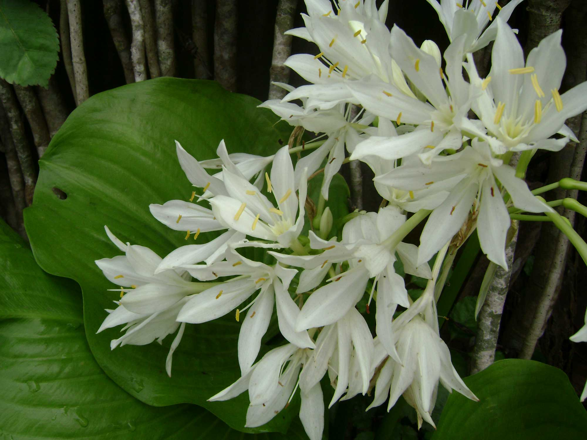 Proiphys amboinensis (Eurycles amboinensis); a common lily in Tongan gardens